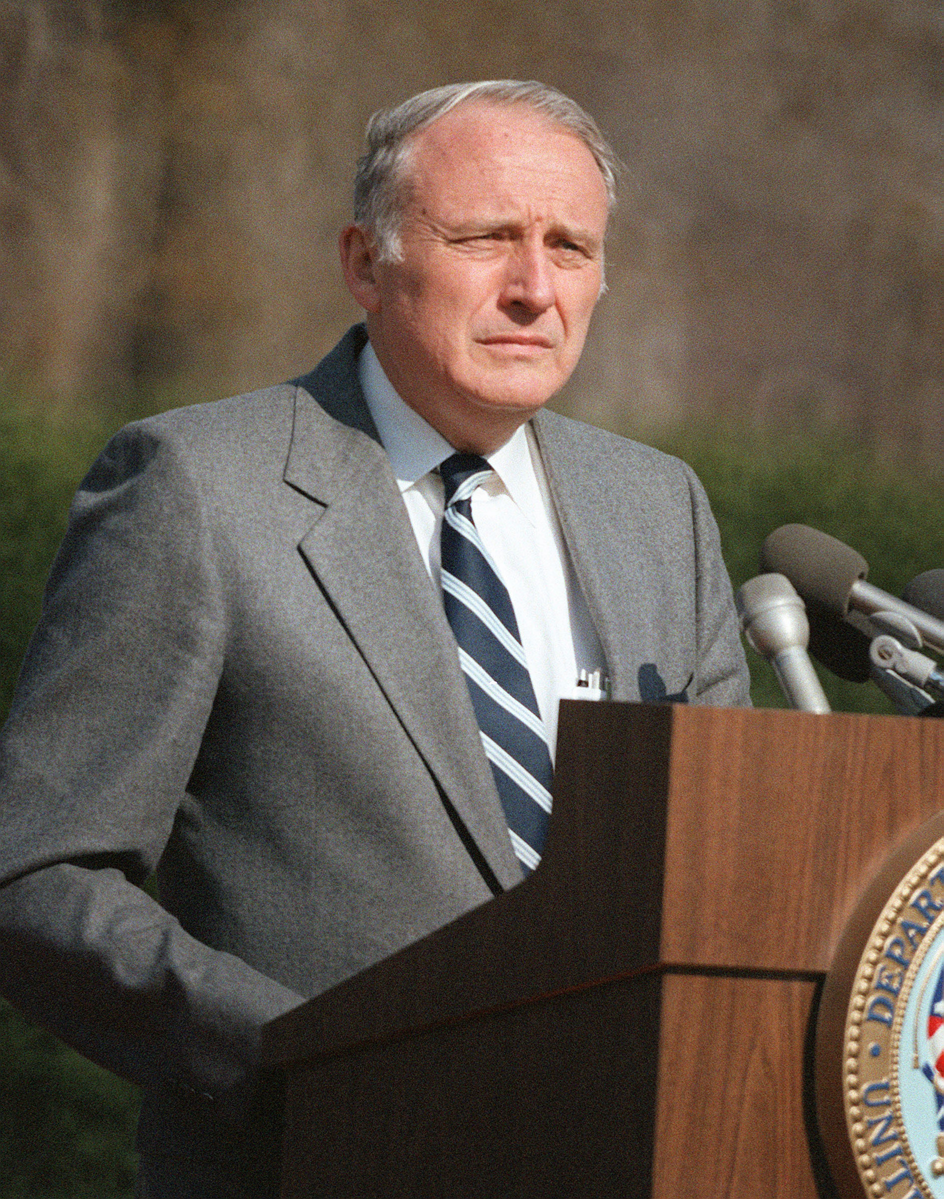 John Otho Marsh, Secretary of the Army, speaks at the funeral for Major Arthur D. Nicholson at Arlington National Cemetery. Nicholson was shot and killed while on duty in East Berlin.